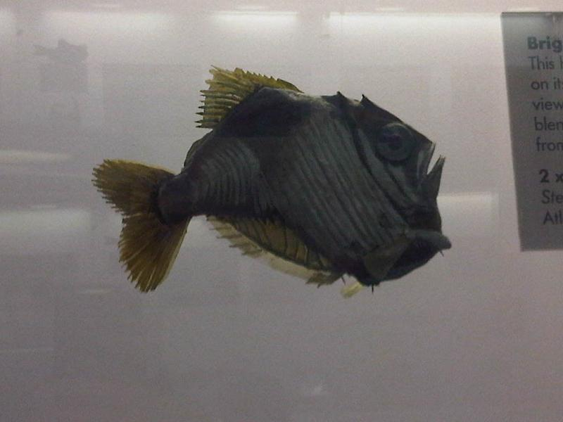 Diaphanous Hatchetfish (Sternoptyx diaphana) model at the Natural History Museum in London, England.